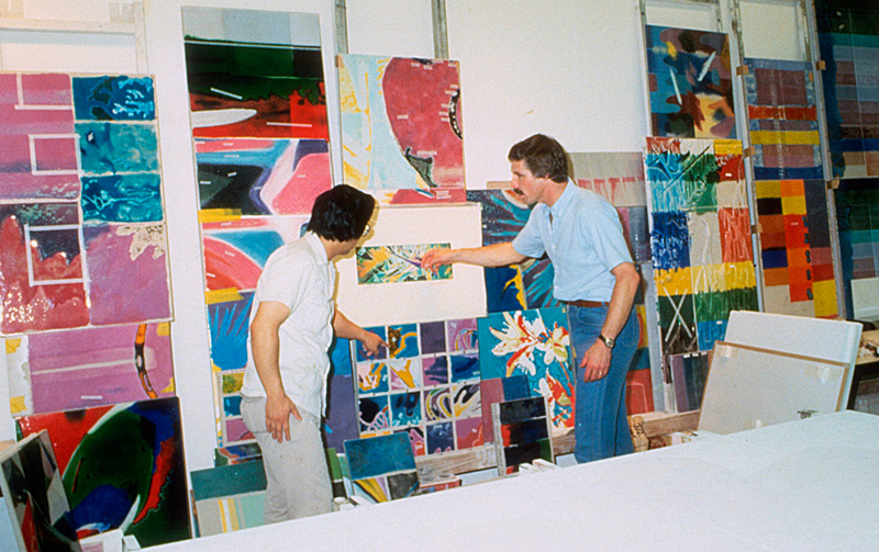 Artist Stephen Knapp at work in Japan, 1985